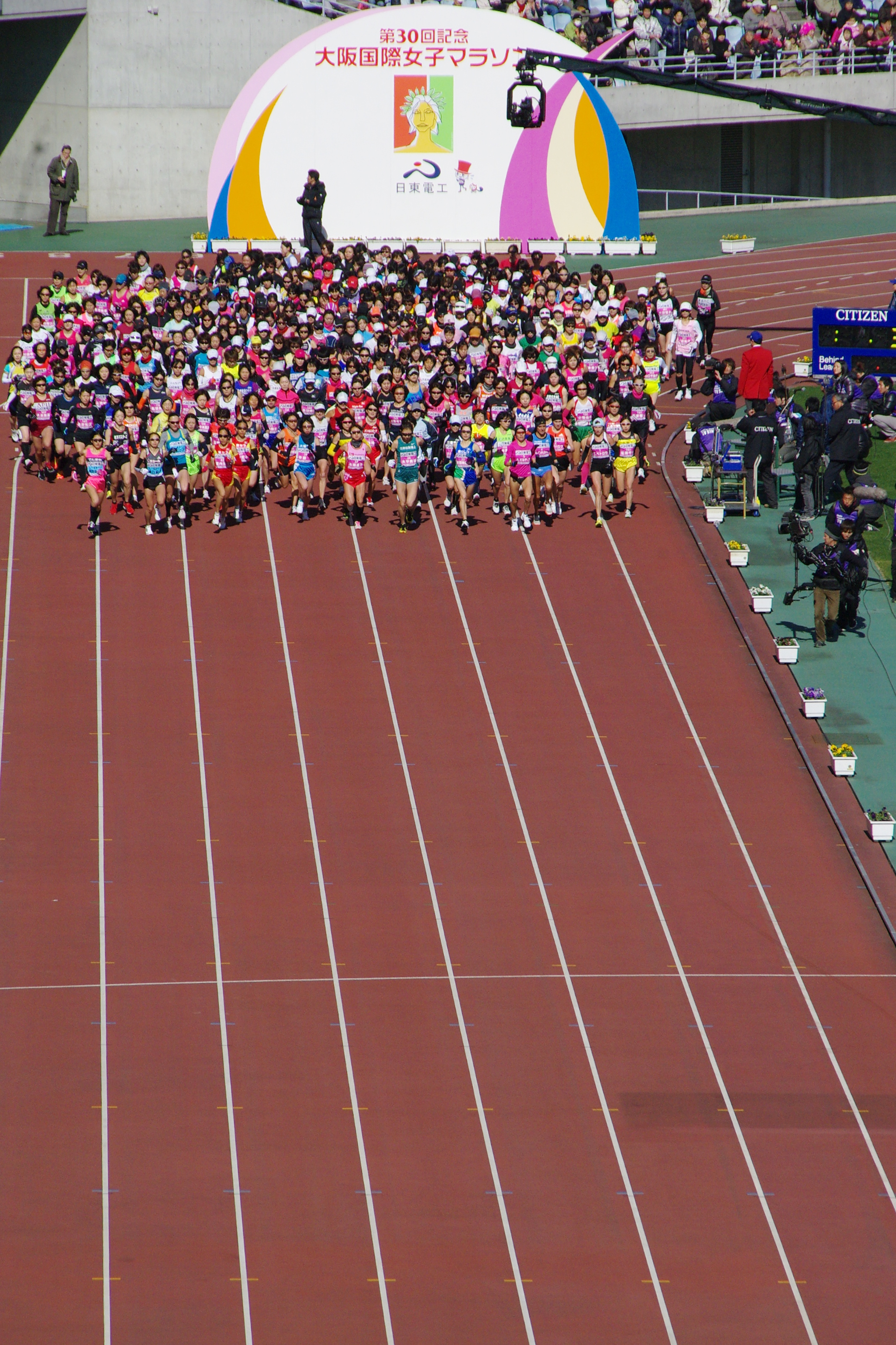 Photograph of the starting off of 30th Osaka Women's Marathon, in Nagai Stadium, Higashisumiyoshi-ku, Osaka, Osaka Prefecture, Japan.